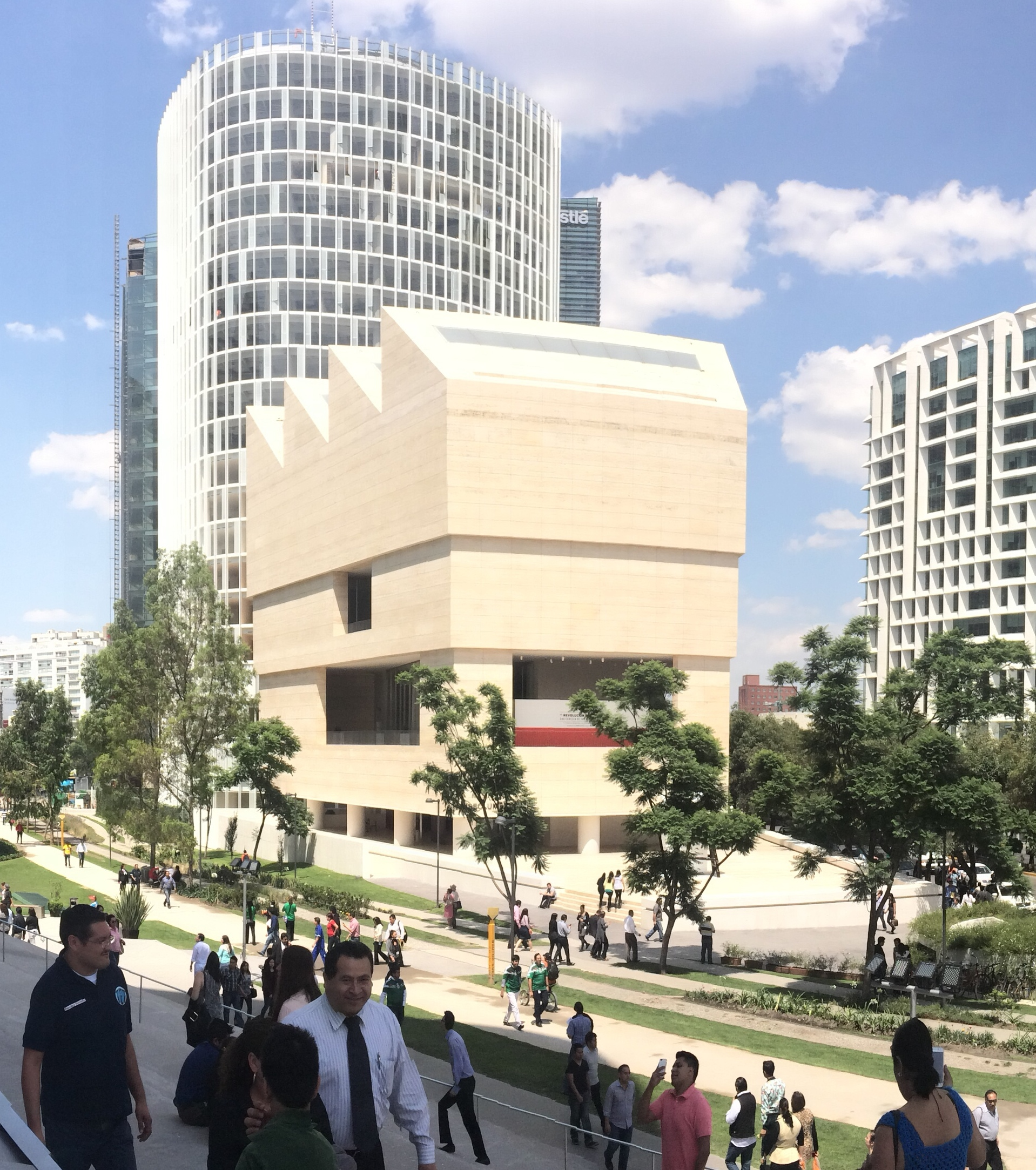 Museo Júmex from Museo Soumaya steps